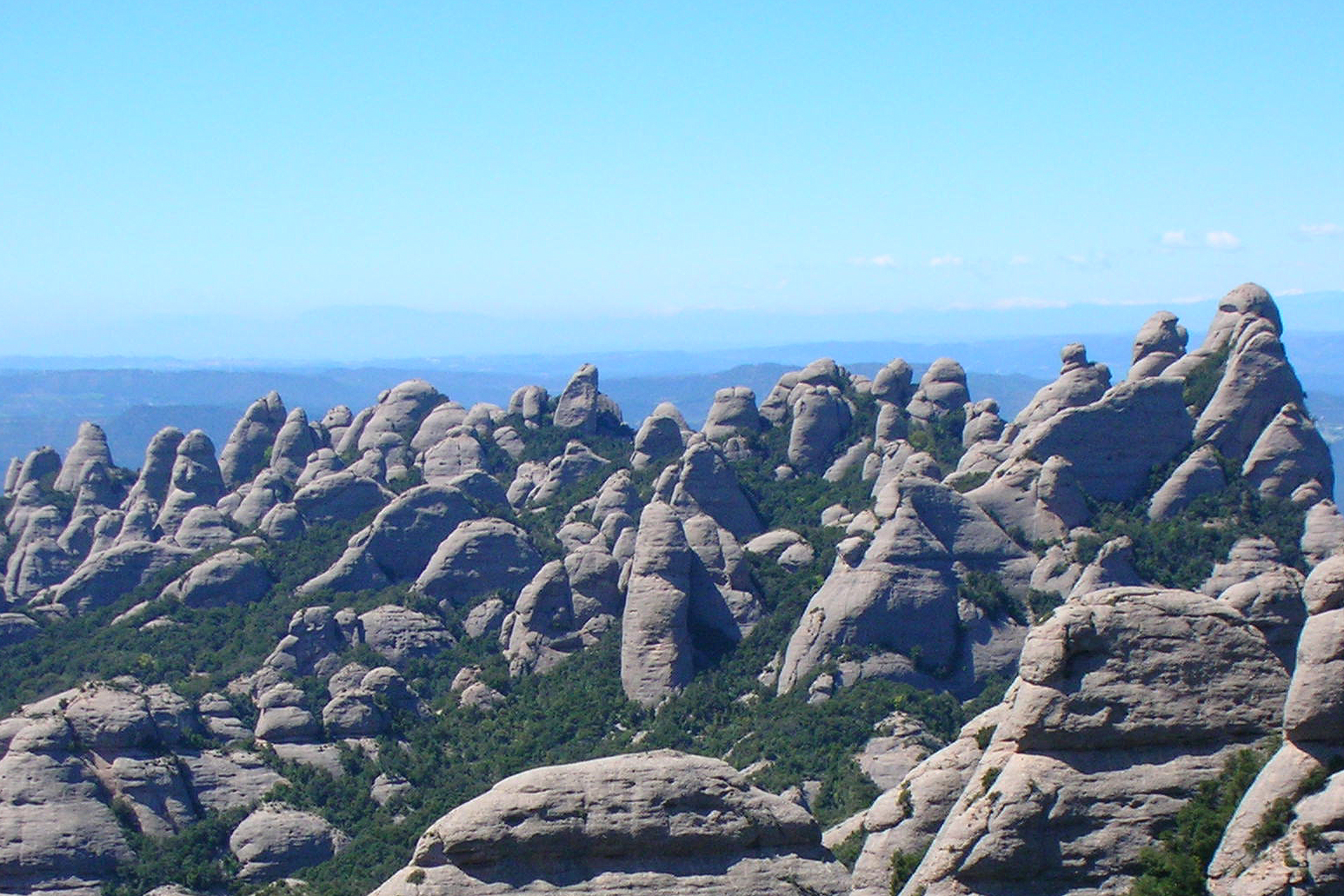 Montserrat, view of Frares Encantats region from Montroig summit